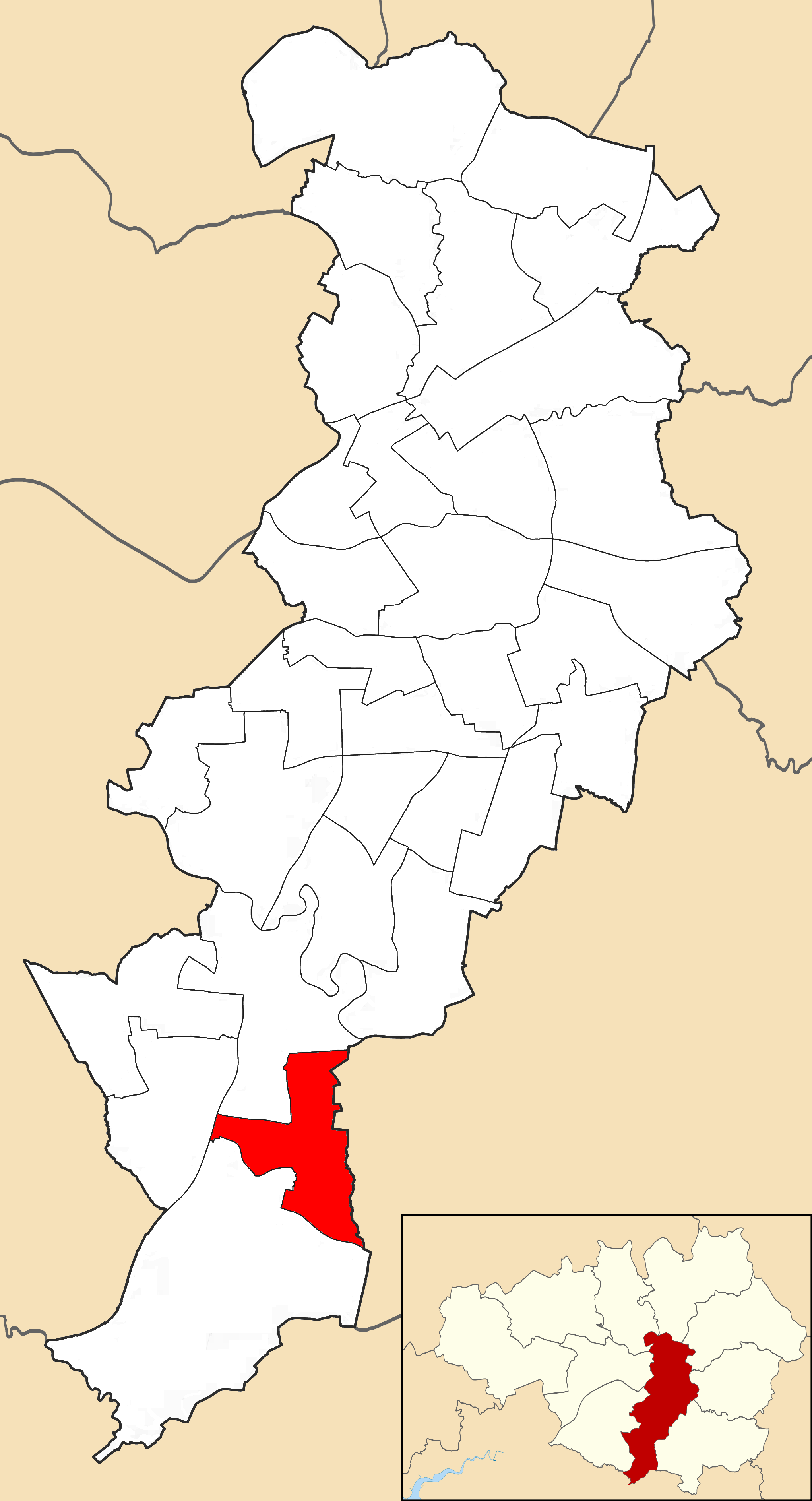 Map showing location of Sharston ward within Manchester City Council.